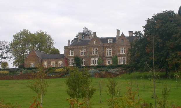 Catesby House, Northamptonshire, on road between Upper and Lower Catesby.